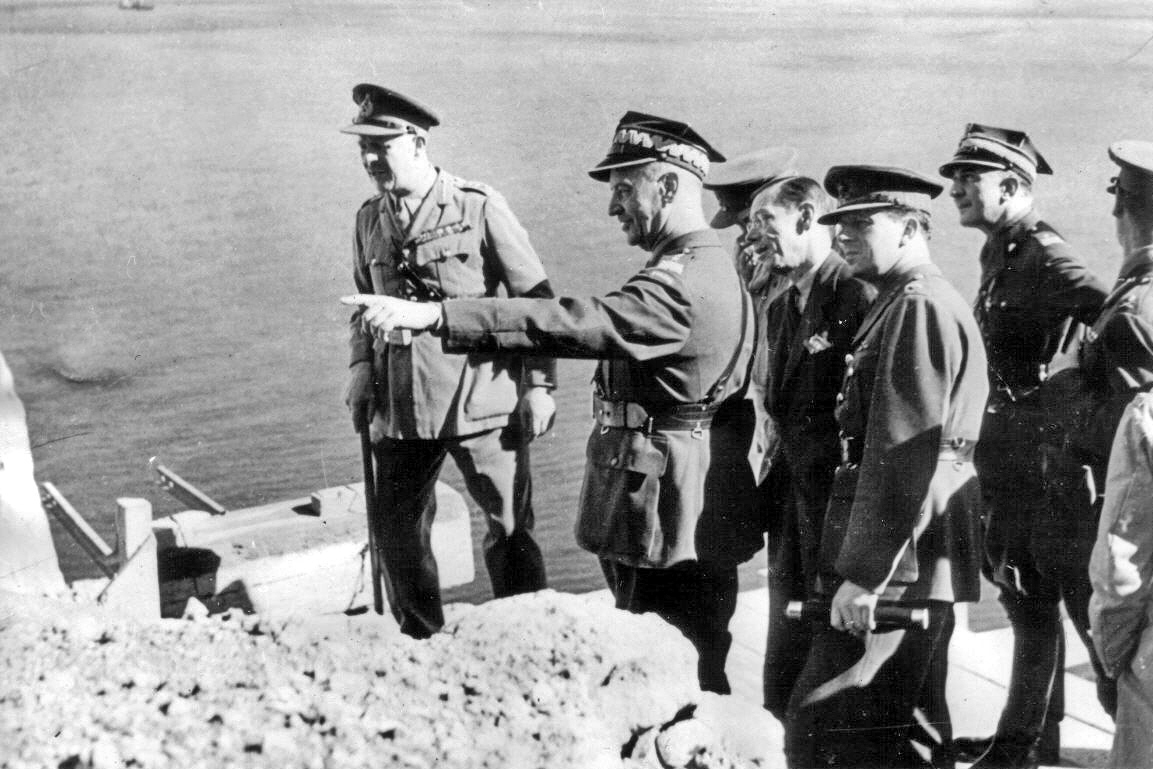 The last visit of general Wladyslaw Sikorski before his tragic death, 4 July, 1943.